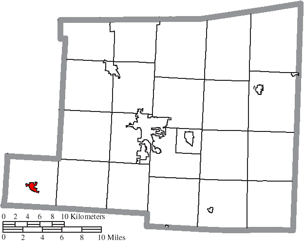 Map of the municipal and township boundaries of Knox County, Ohio, United States, as of the 2000 census, with the location of the village of Centerburg highlighted. Township borders are shown only in unincorporated areas in order to differentiate incorporated and unincorporated areas more clearly.